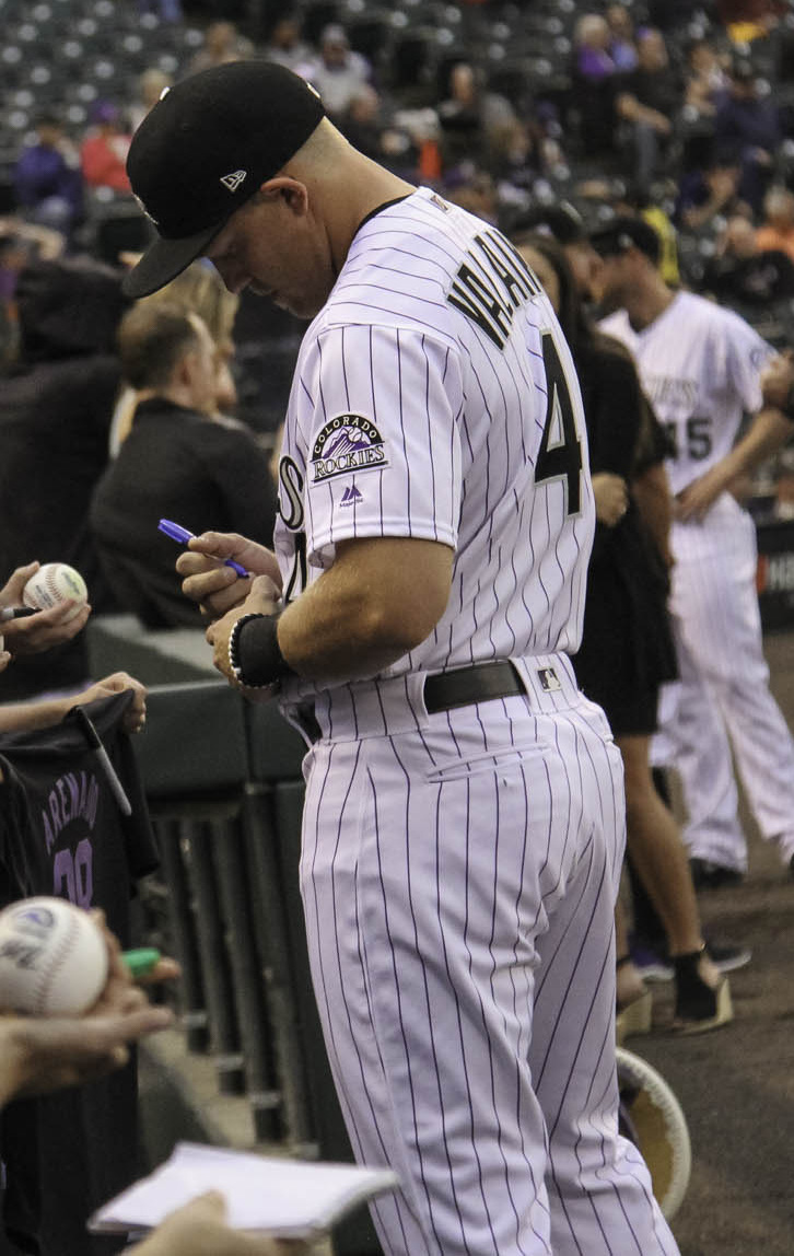 Pat Valaika of the Colorado Rockies signs autographs before a game against the San Diego Padres on April 10, 2018 at Coors Field.